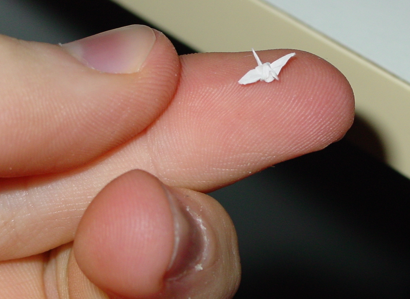 A miniature paper crane. Folded and photographed by Elfer.